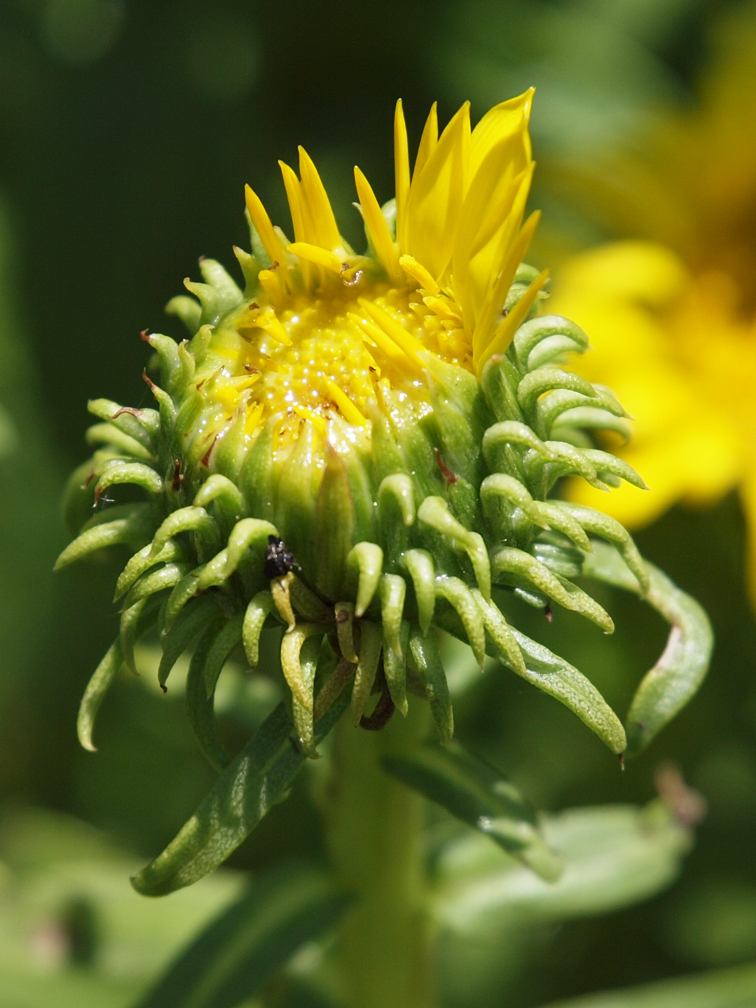 Hairy gumweed (Grindelia hirsutula) Bolinas lagoon Stinson Beach, CA